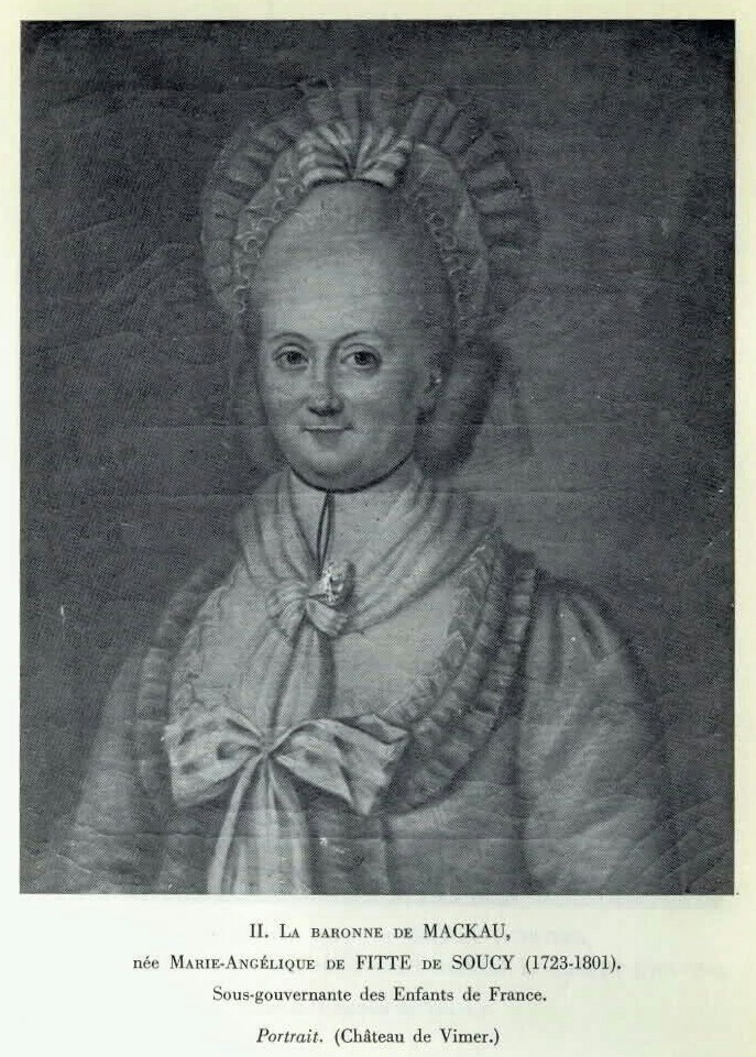 Marie-Angélique de Mackau